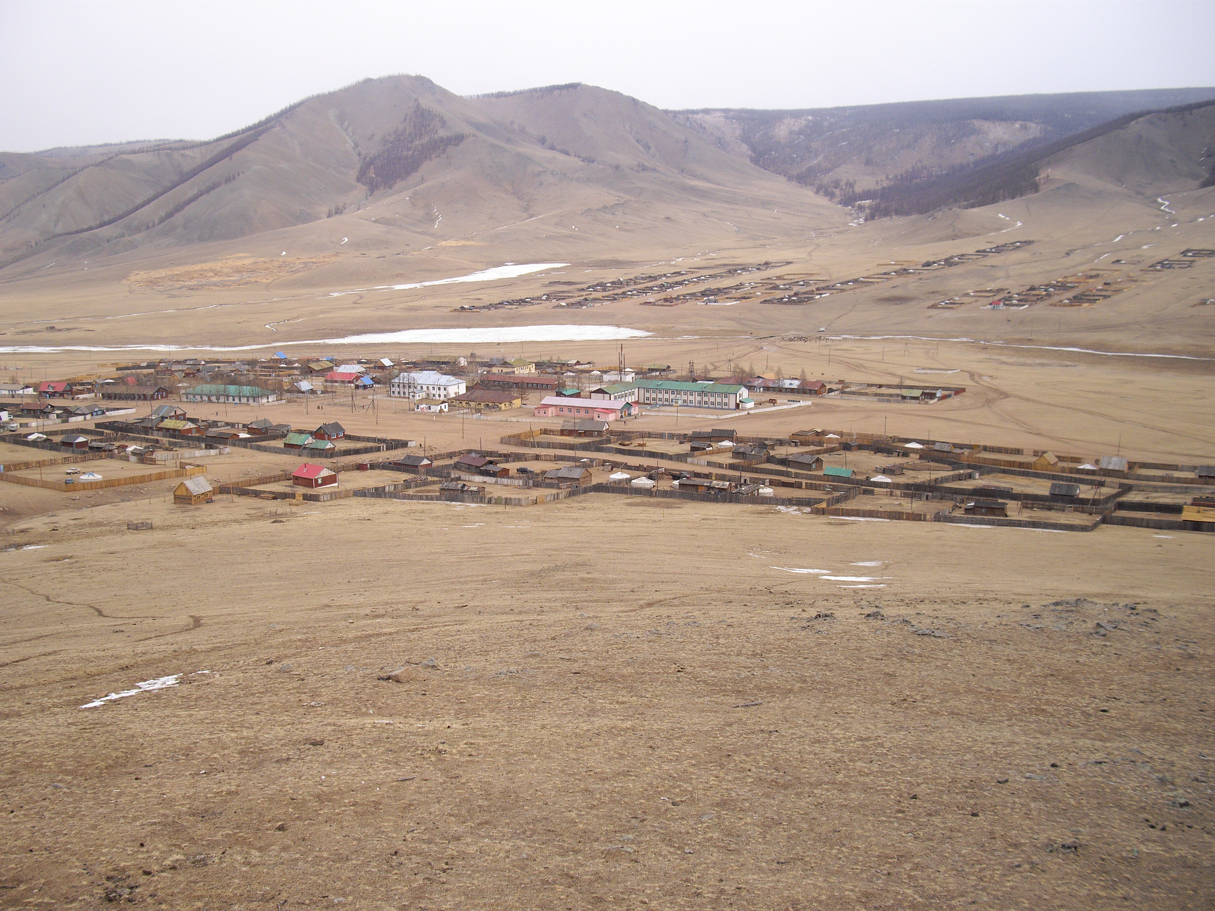 A picture of Tunel, Khovsgol, Mongolia in April 2010.